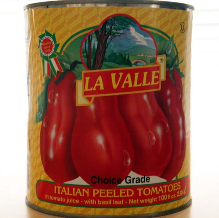 San Marzano Tomatoes